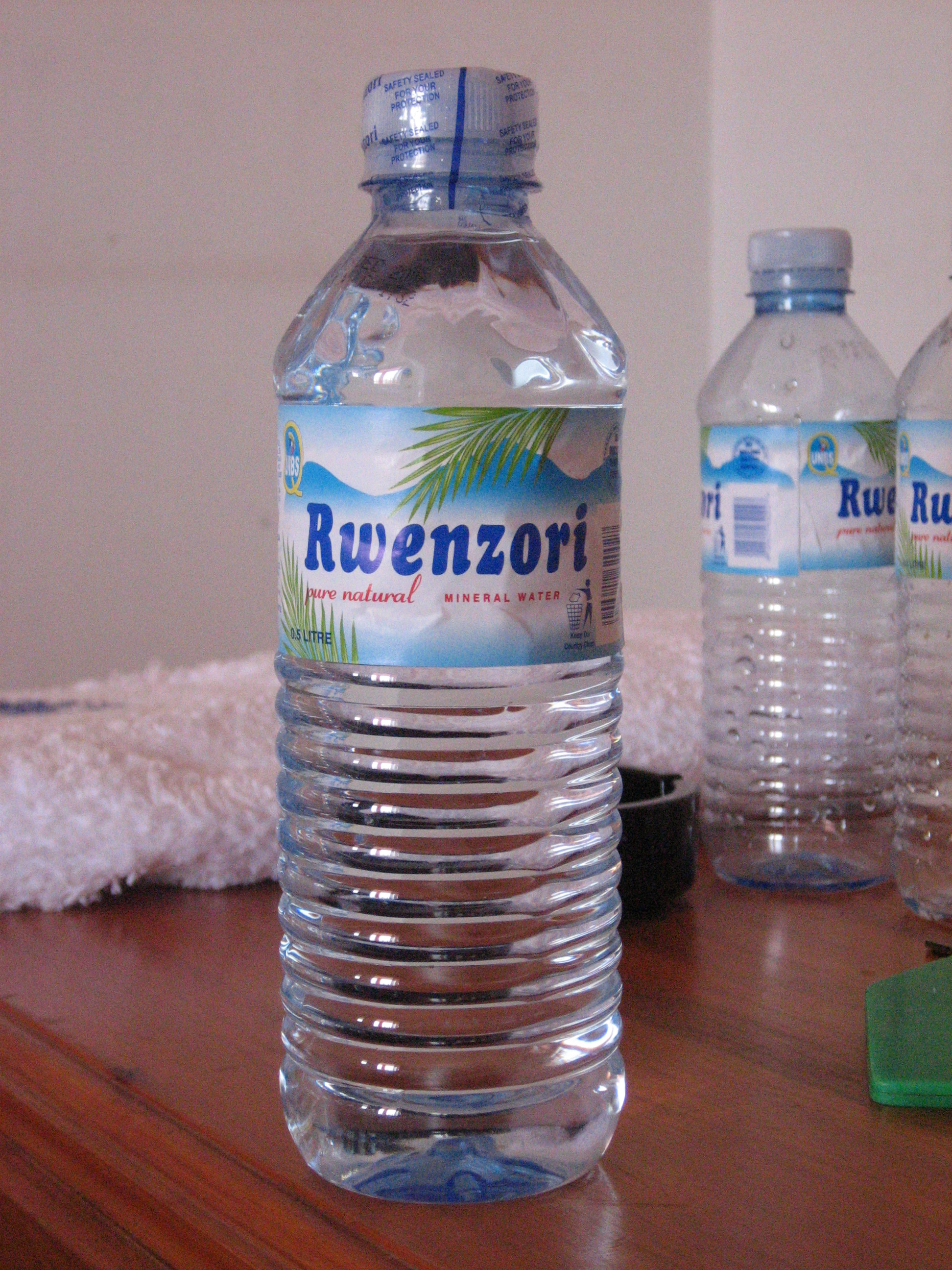 A bottle of mineral water bottled in the Rwenzori mountains, Uganda.